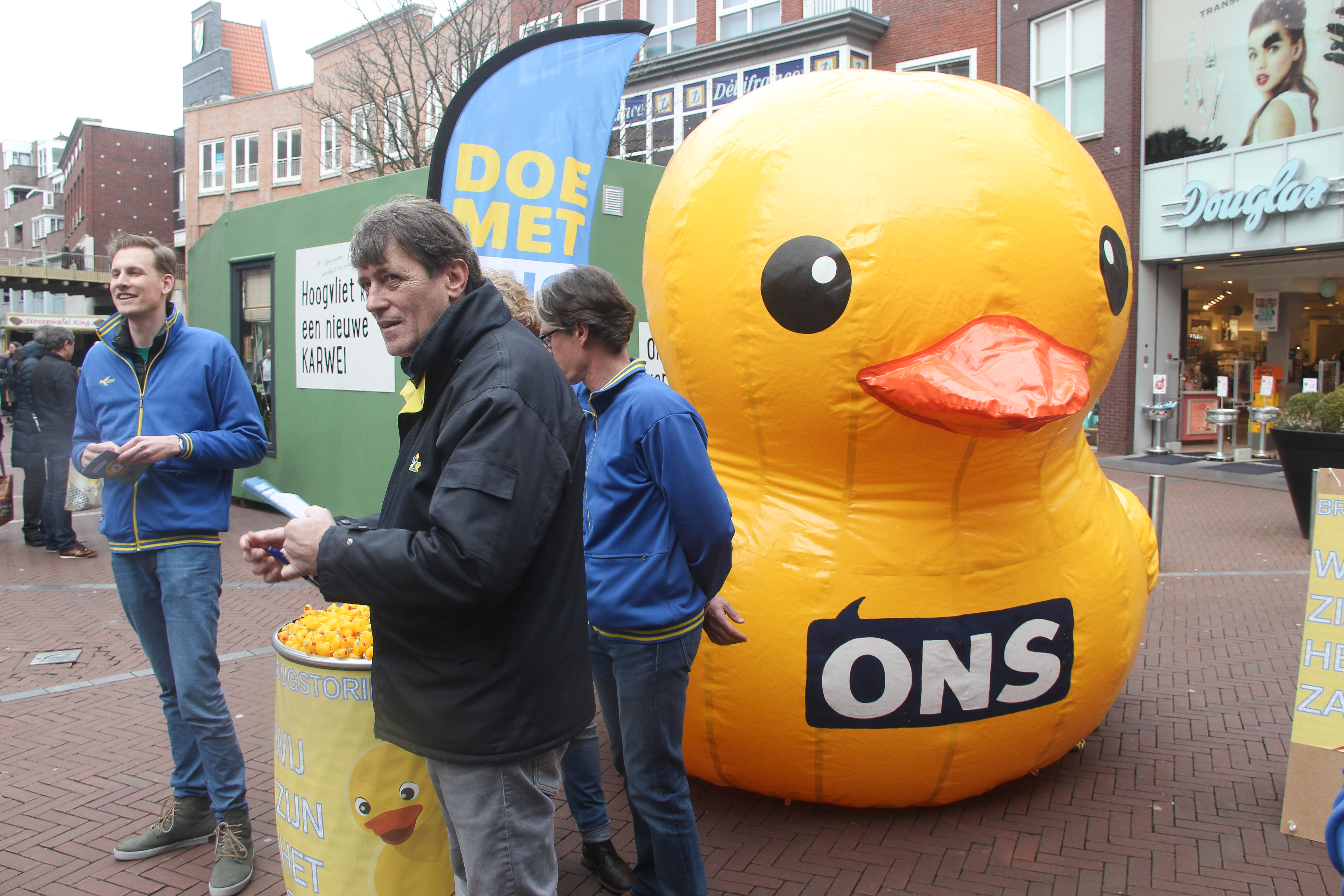 The big duck of us during a political action Nissewaard for the municipal elections Nissewaard